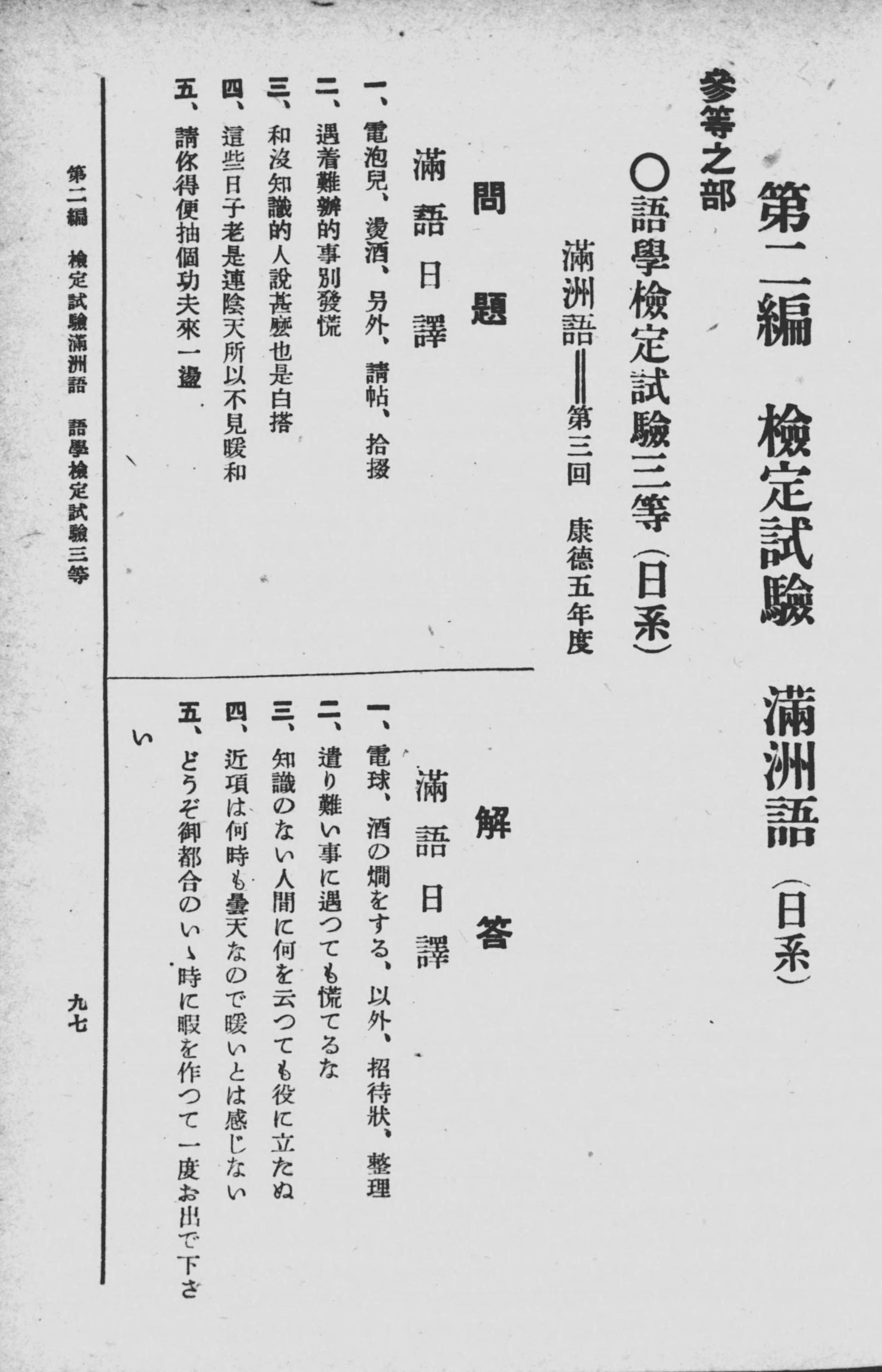 Language Level Test, Chinese(Manshugo), Level 3, Manchukuo, 1938